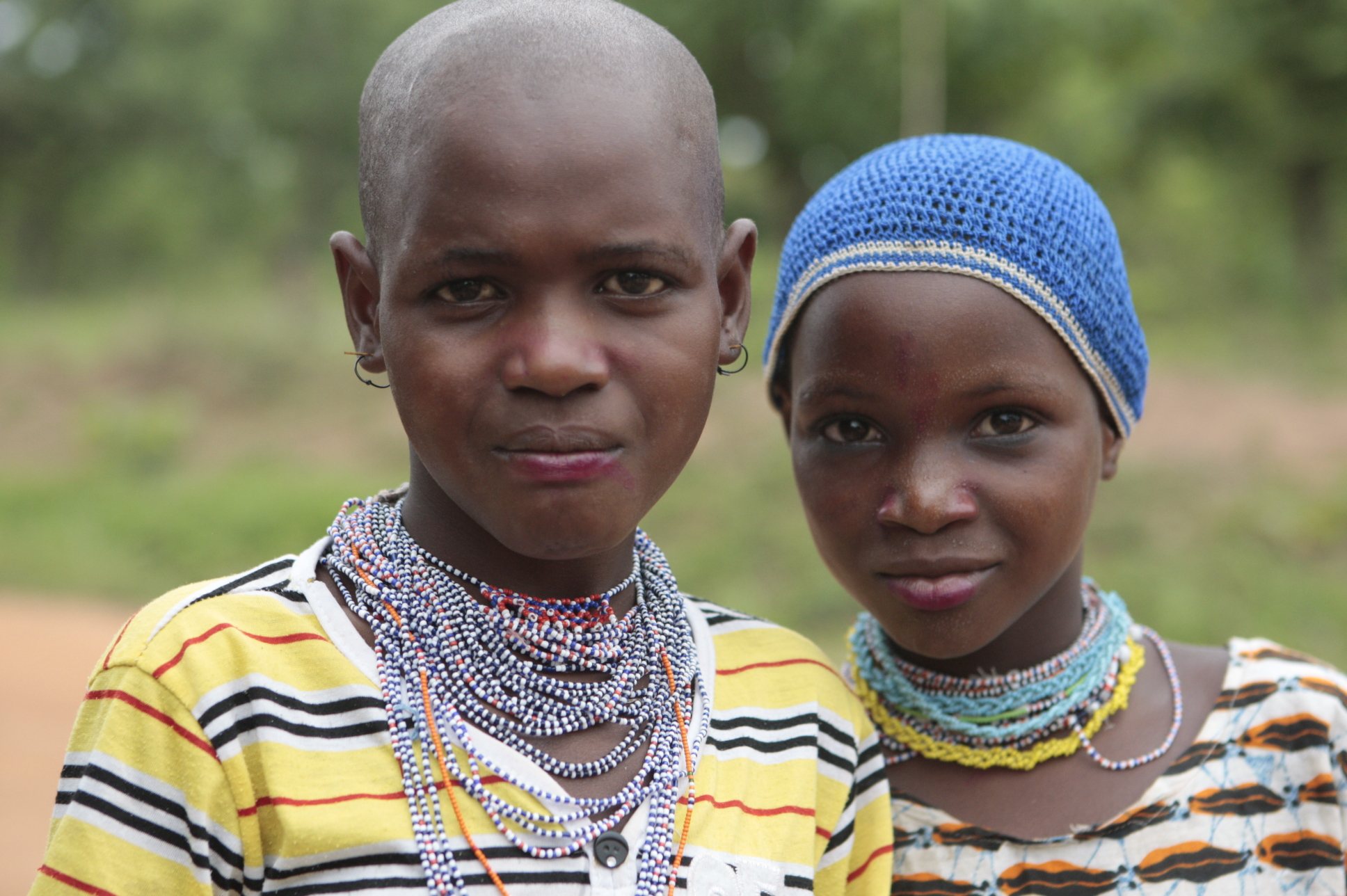 Villagers from the area around Wanrarou, Benin, wait to receive medical care at a school from the Beninese military, U.S. Airmen from the 459th Expeditionary Aeromedicine Squadron and U.S. Sailors from the 4th Dental Battalion June 13, 2009, during Exercise Shared Accord. The exercise is a scheduled combined U.S.-Benin military exercise that includes humanitarian and civil affairs projects. VIRIN: 090613-M-8213R-189